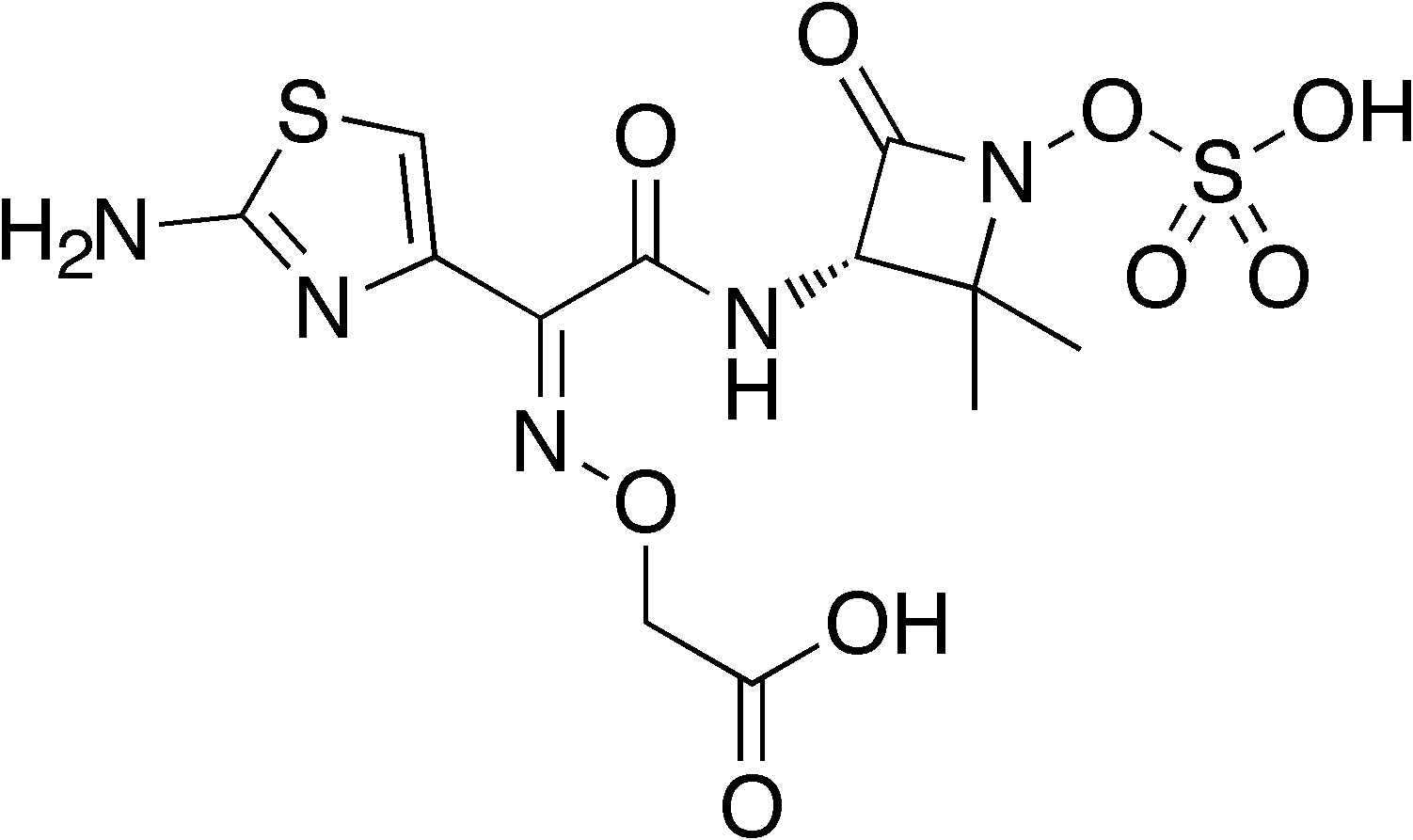 chemical structure of tigemonam